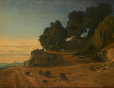 Toile de Paul chevandier